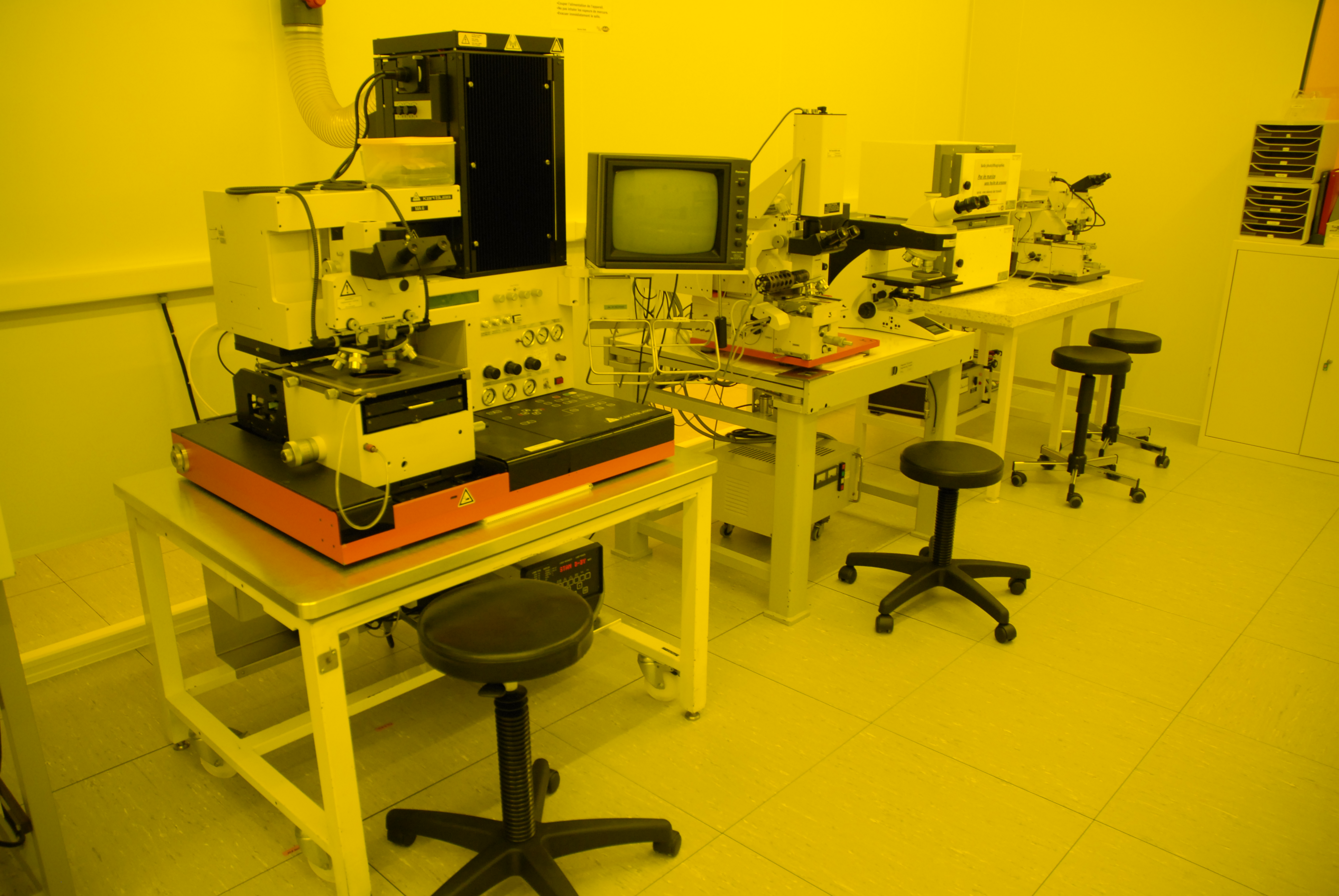 Two different mask aligner (left: MA-6), (right: MJB-3) under inactinic light at LAAS-CNRS technological facility in Toulouse, France.